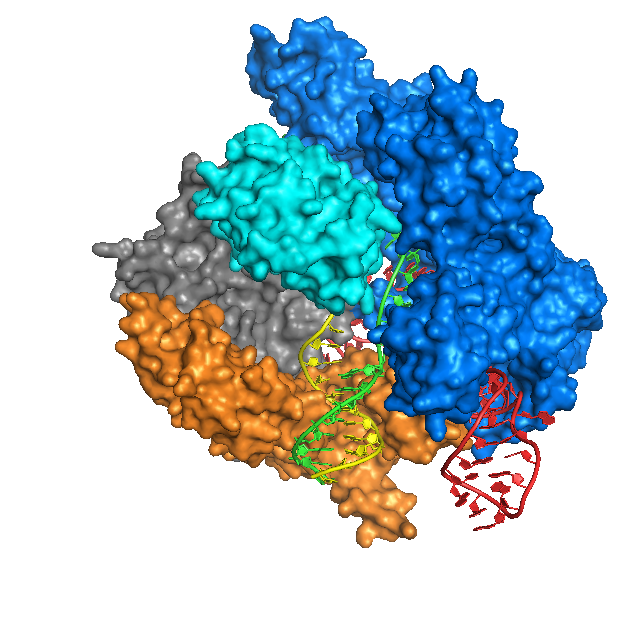 Crystal Structure of Cas9 bound to DNA based on the Anders et al 2014 Nature paper. Rendition was performed using UCSF's chimera software